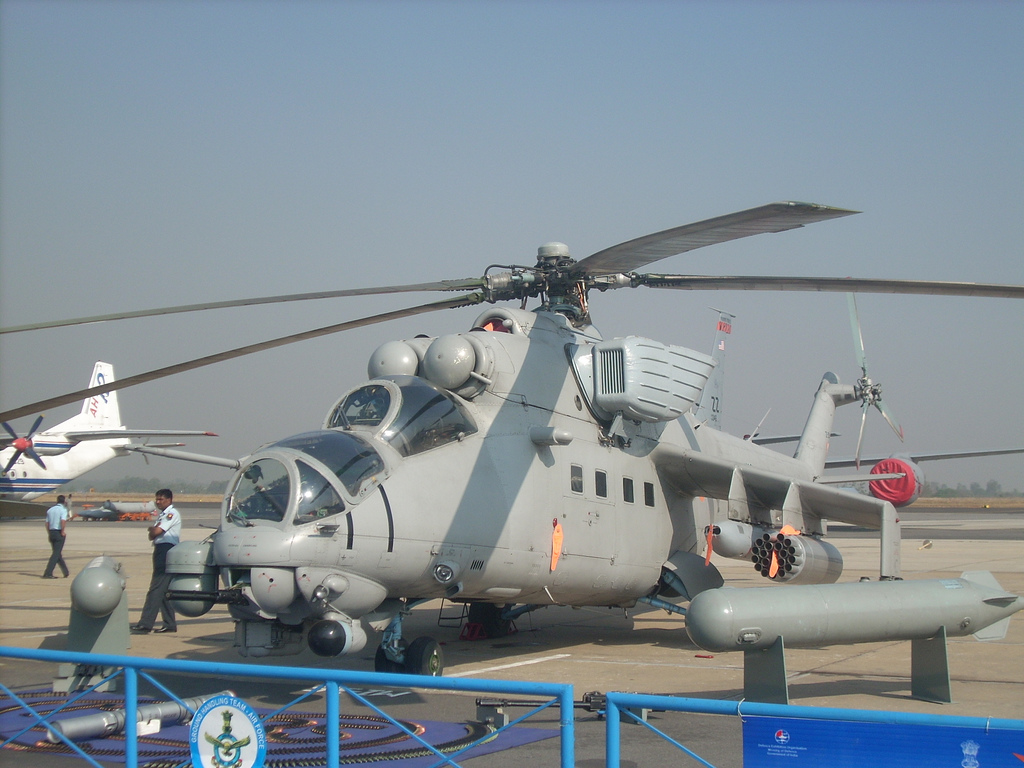 Mi-35 Hind Attack helicopter of the Indian Air Force. Upgraded with Israeli systems.